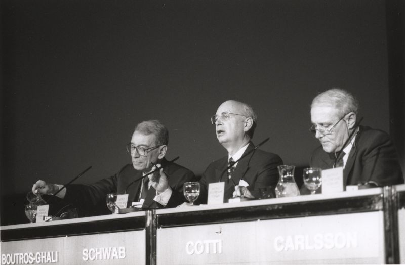 Boutros Boutros-Ghali (left), Secretary-General of the United Nations, Klaus Schwab (middle), founder and president of the World Economic Forum, and Flavio Cotti, member of the Swiss Federal Council, at the 1995 World Economic Forum.Boutros-Ghali, Klaus Schwab, Flavio Cotti - World Economic Forum Annual Meeting 1995